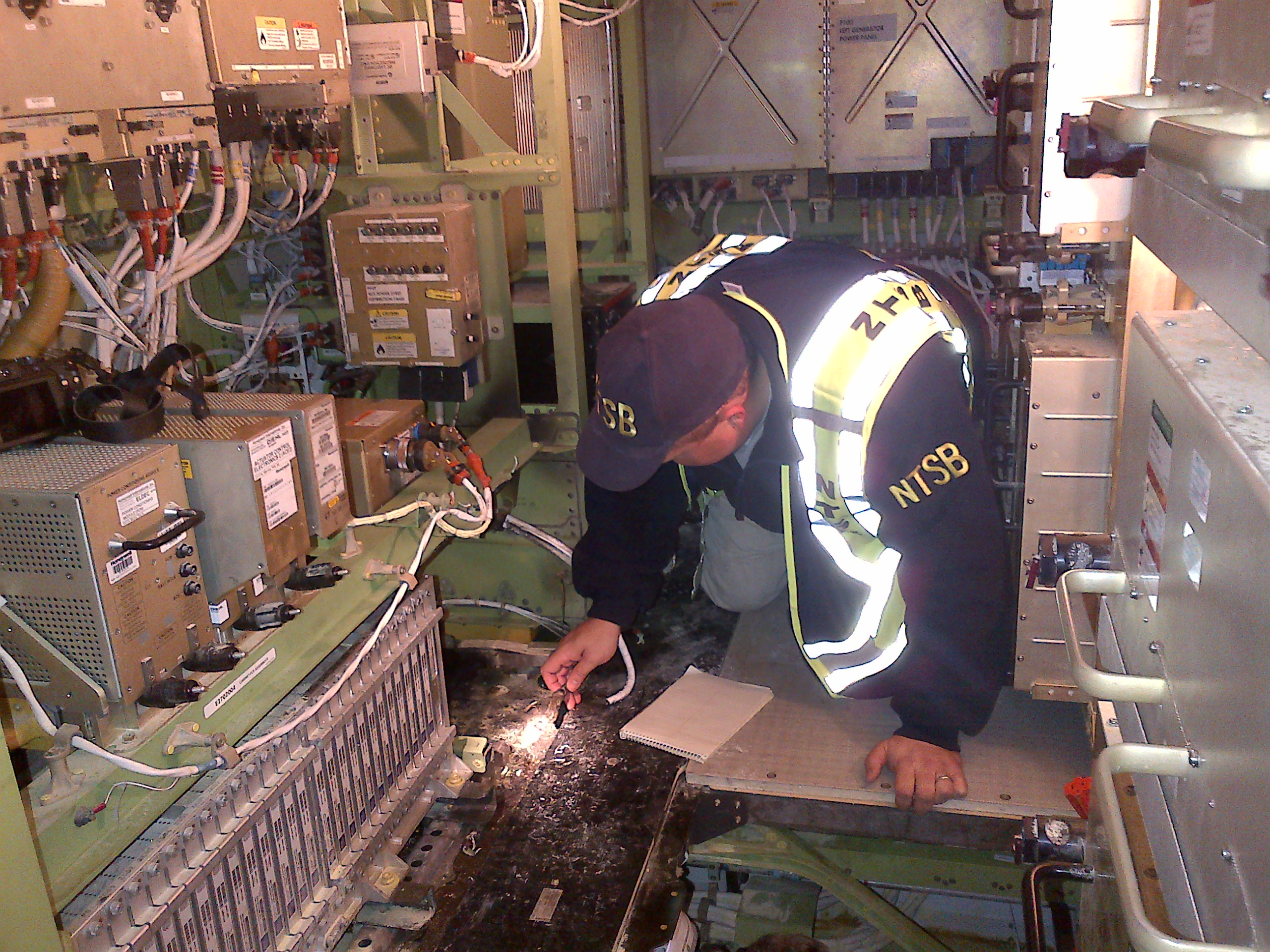 NTSB Investigator Mike Bauer inside the JAL Boeing 787 that caught fire on Jan. 7 at Boston's Logan International Airport. This is the Aft Electronics Bay.[1]